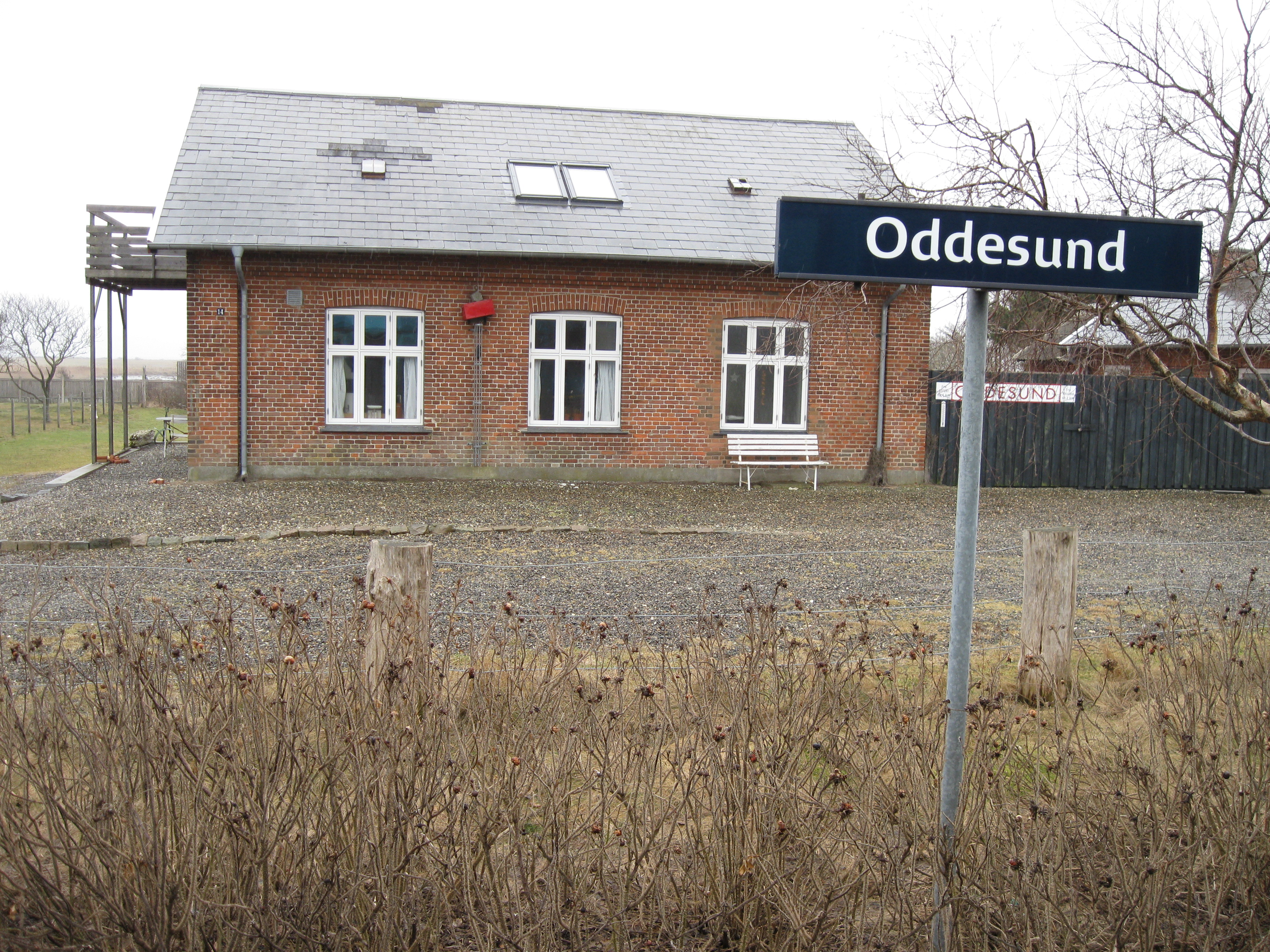 Oddesund Nord station, Denmark